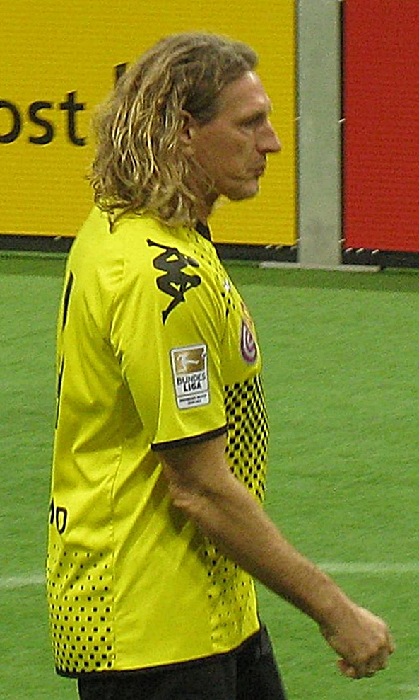 Germany, Bonn, Telekom-Dome: Michael Schulz (former german Bundesliga professional soccer player) during a tournament as player of the BVB-traditional team.